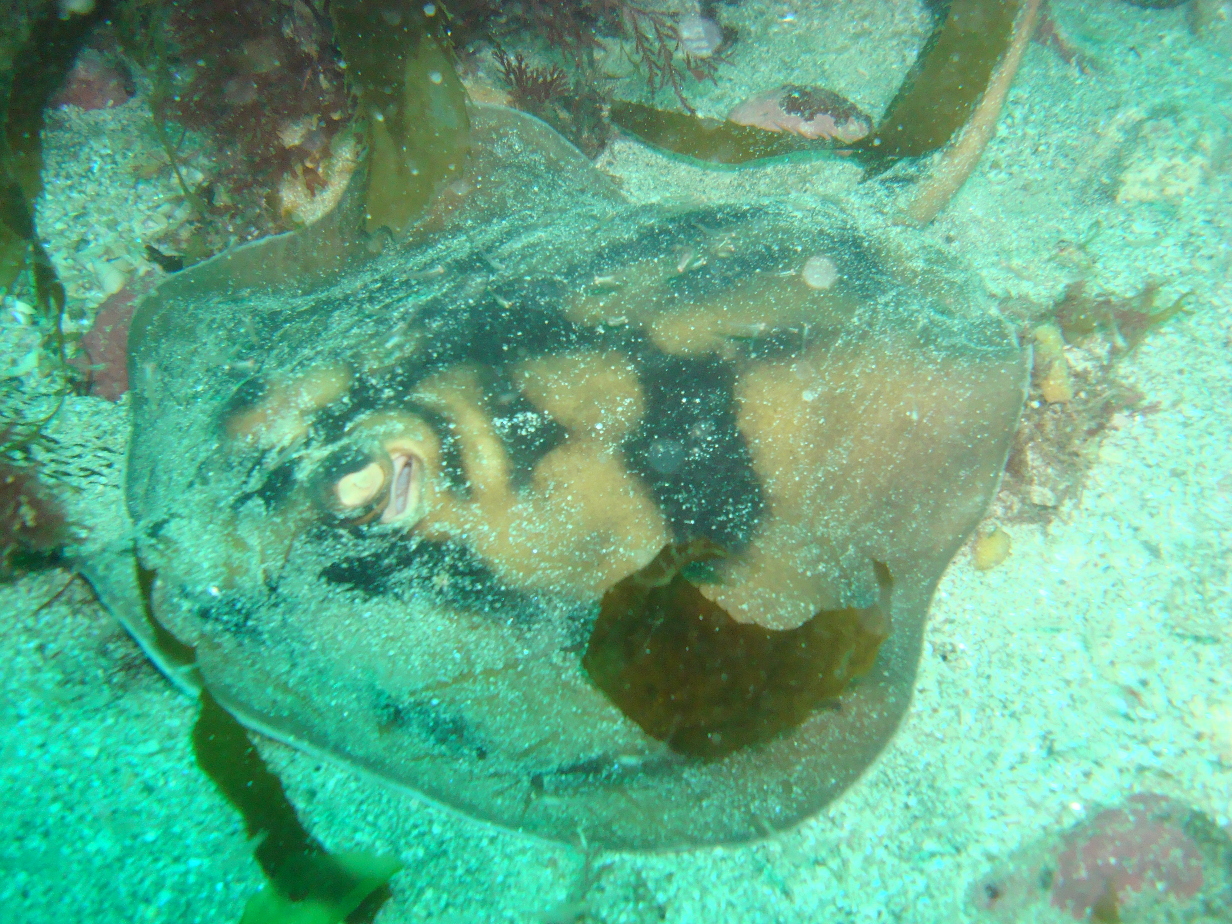 Banded stingaree (Urolophus cruciatus) off Eaglehawk Neck, Tasmania